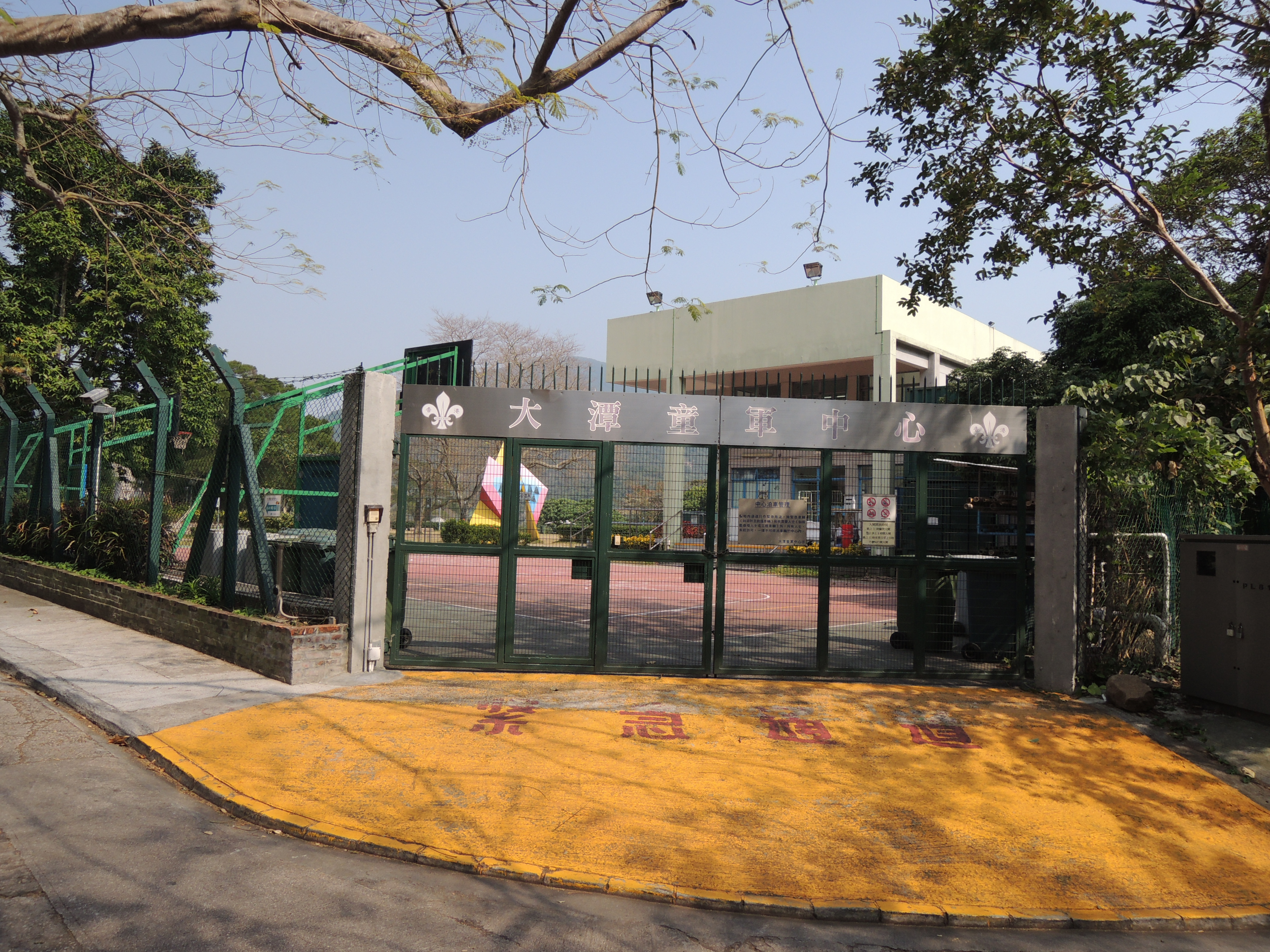 Tai Tam Scout Centre (Tai Tam, Hong Kong)中文（香港）: 大潭童軍中心 (香港南區大潭)